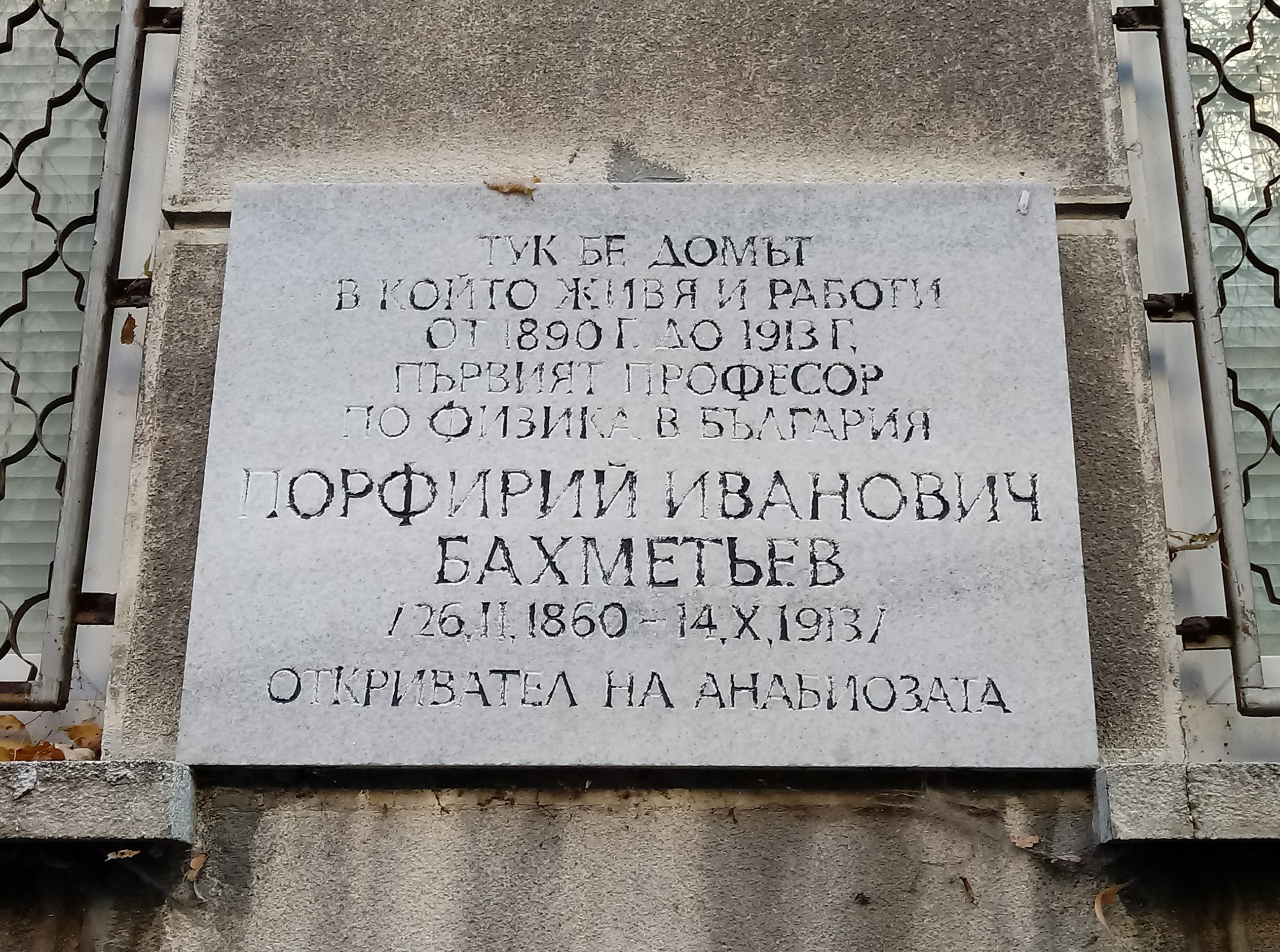 Porfiriy Ivanovich Bahmetyev memorial plaque, 17 Krakra Str., Sofia